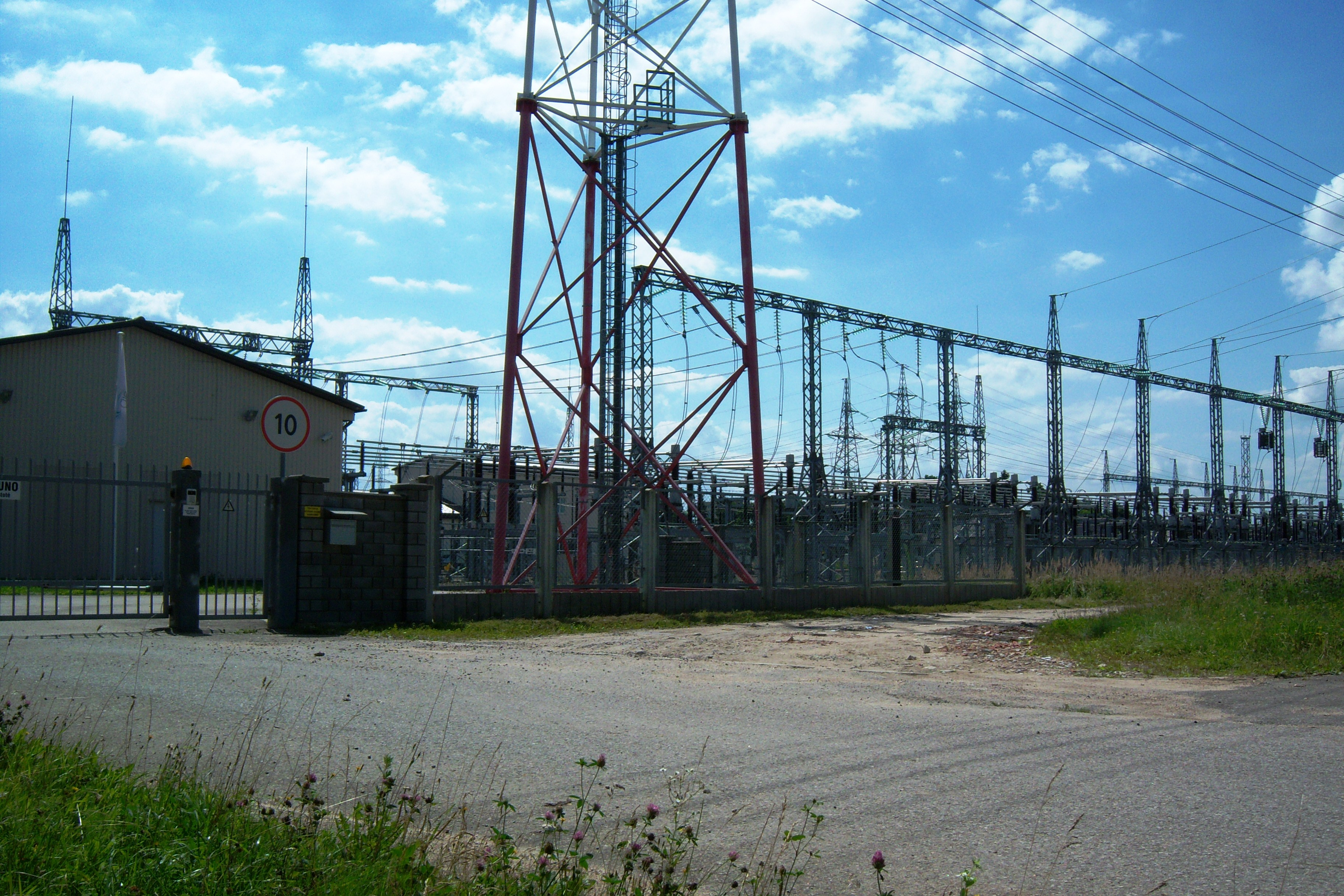 Biruliškės electrical station, kaunas region, Lithuania